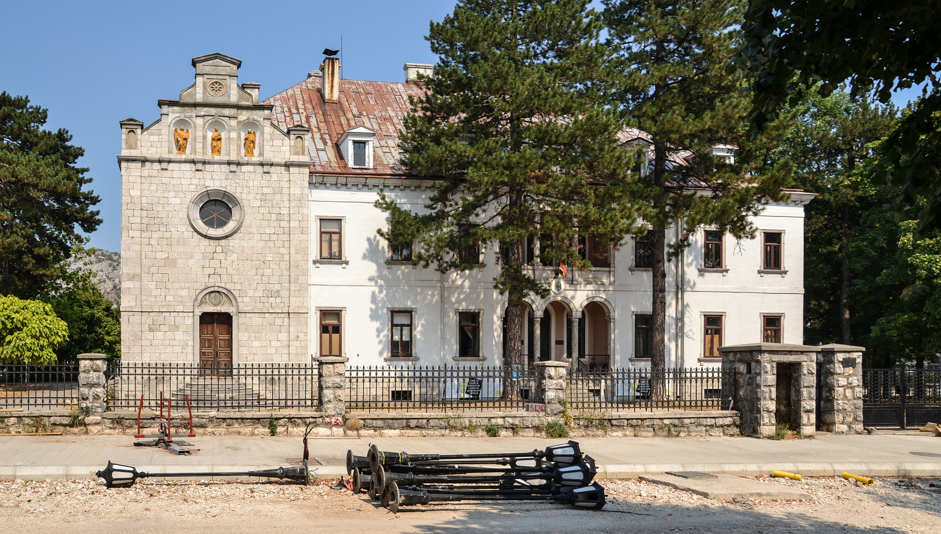 Former Embassy of Austria-Hungary in Cetinje, Montenegro